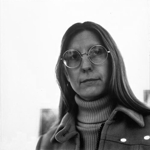 Portrait of Diane Wakoski at MOMA